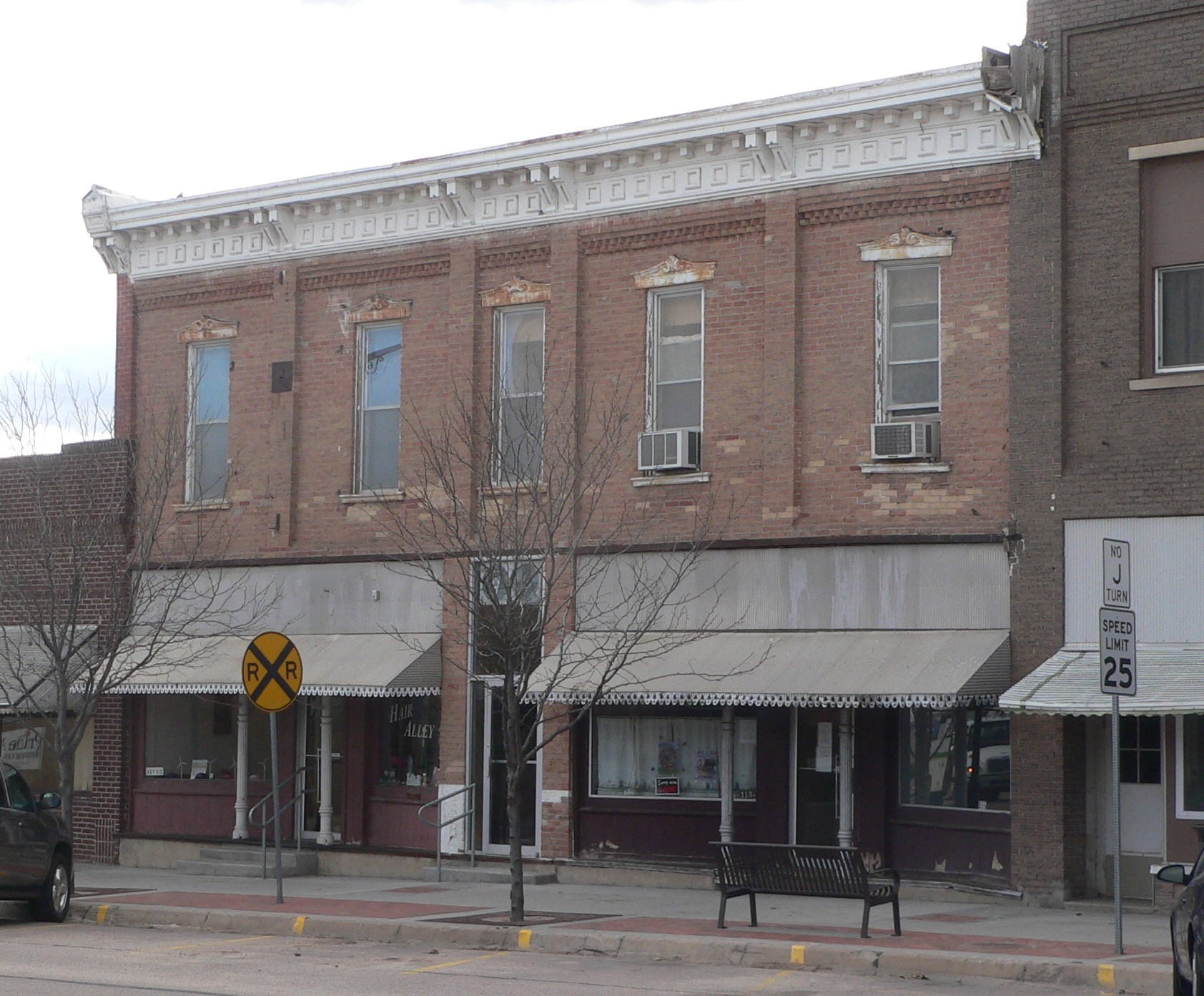 Former Gray County courthouse in Cimarron, Kansas; seen from the northeast.